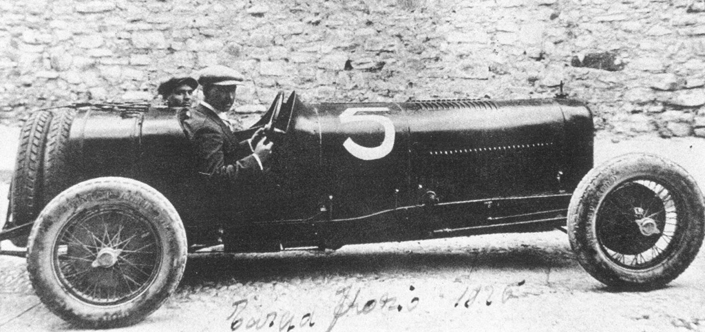 1926 Maserati Tipo 26 s/n 11 with Alfieri Maserati (at wheel) and Guerino Bertocchi (riding mechanic) posing. The handwriting says "Targa Florio 1926", and #5 was the entry, so this picture should be from this race which took place on April 22 or 25, 1926.